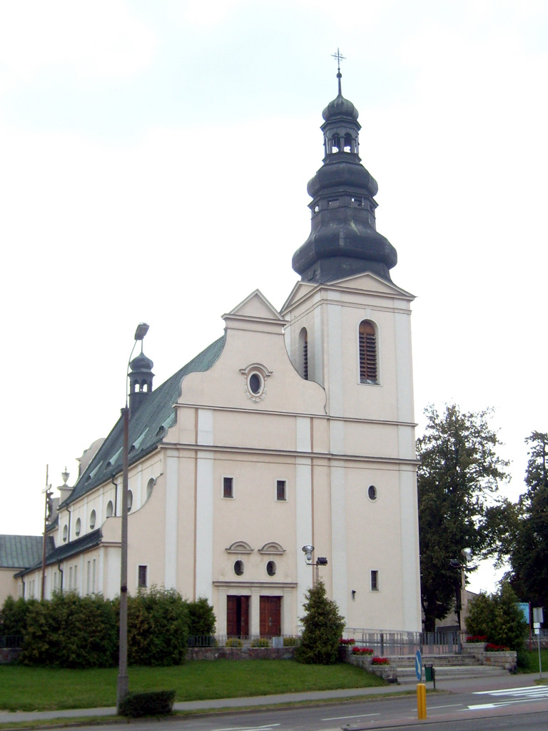 The church in Trzcianka, Poland.